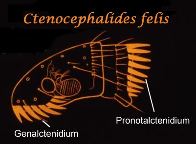 scheme of the head of the cat flew (Ctenocephalides felis)